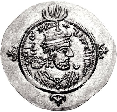 Coin of Kavadh II.